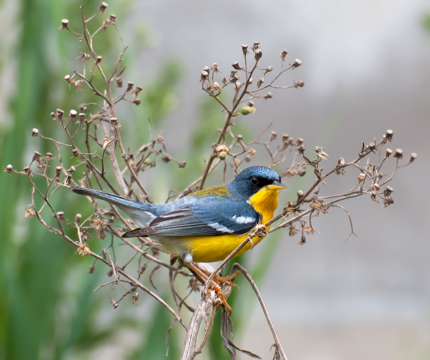 A Tropical Parula in Fecapi, Piraju, São Paulo, Brazil.